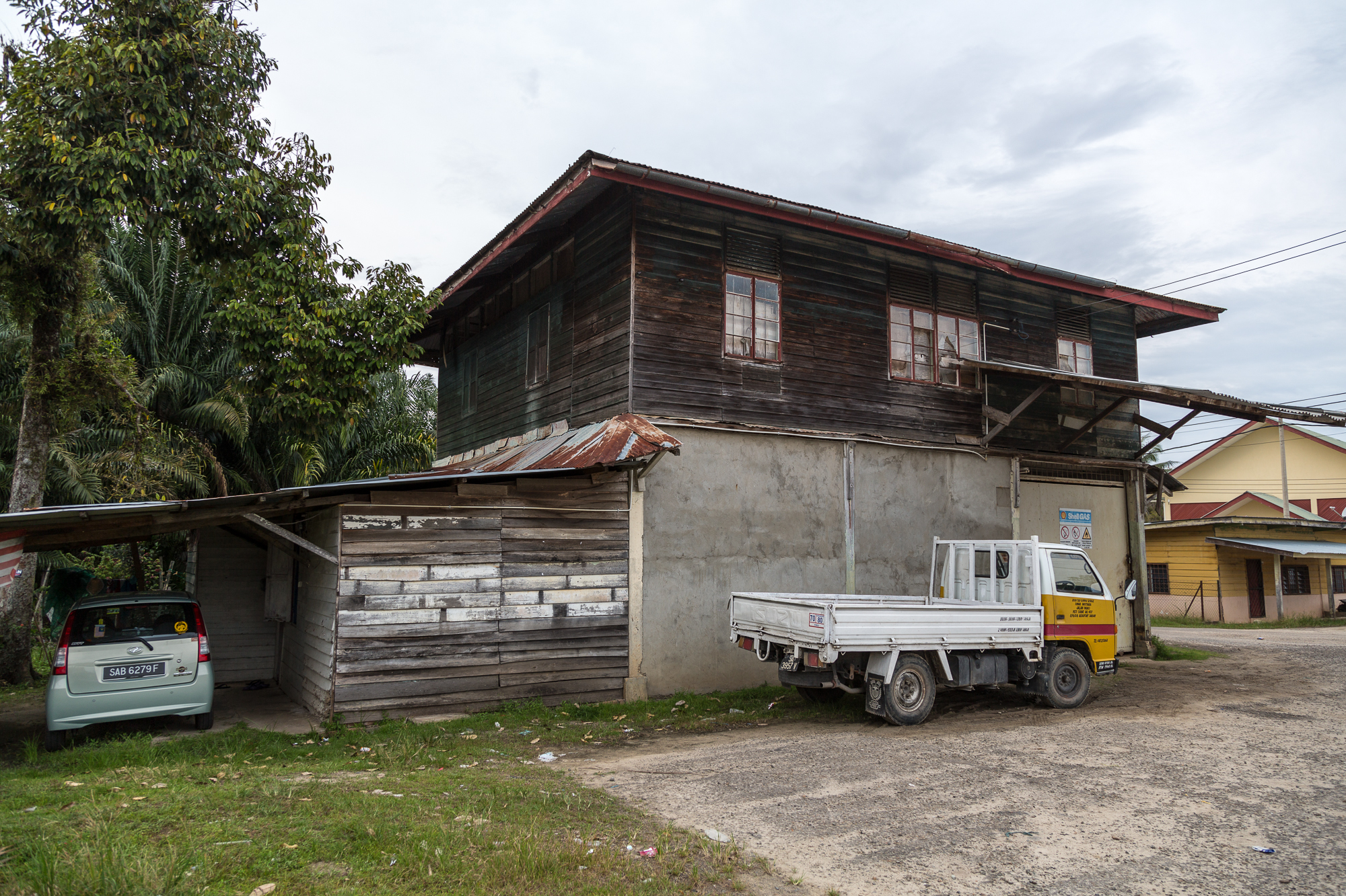 Kg. Lumadan, Sabah, Malaysia: Former Railway Office; probably the place where Arthur J. West lived. The railway tracks of the North Borneo Railway were just in front of that house.